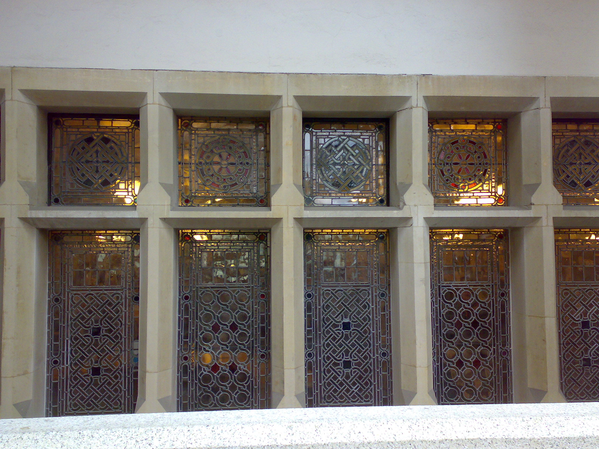 Stained glass window at Cadogan Hall, London, England.